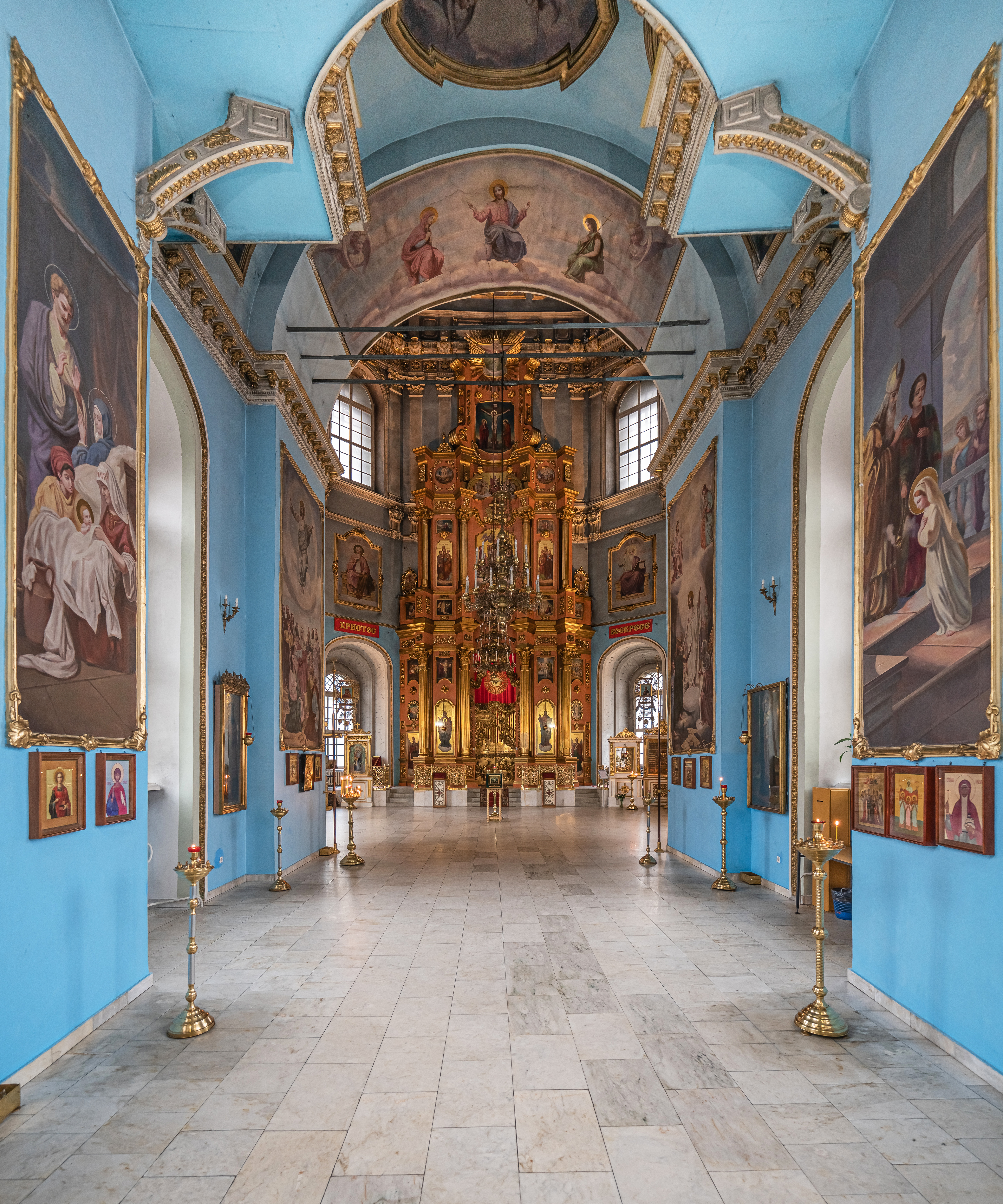 Interior of St. Nikita the Martyr Church at Basmannaya in Moscow, Russia